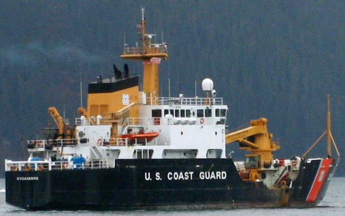 USCGC Sycamore, Prince William Sound